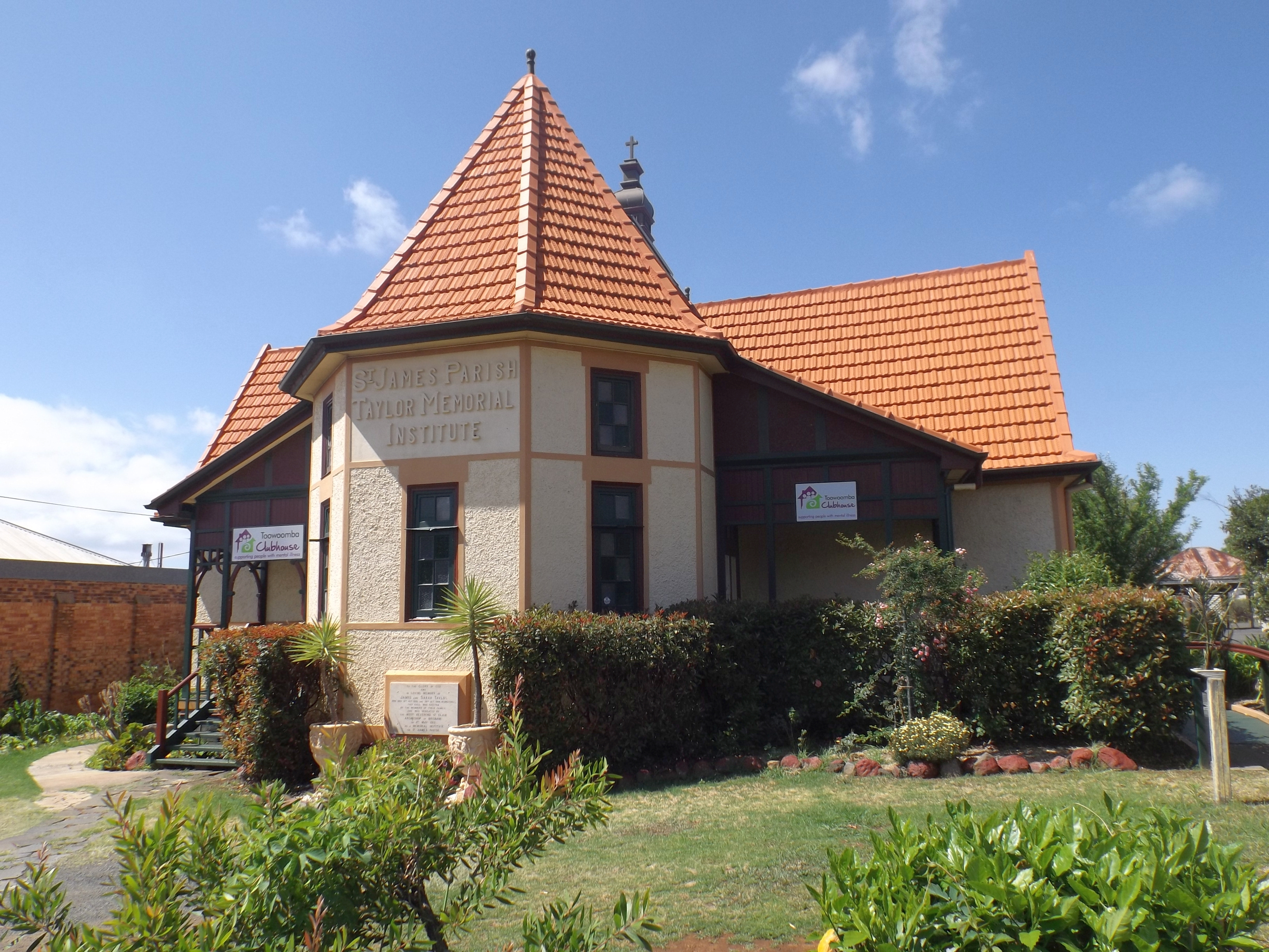 Photo of St James Parish Hall in Toowoomba, Queensland, Australia.